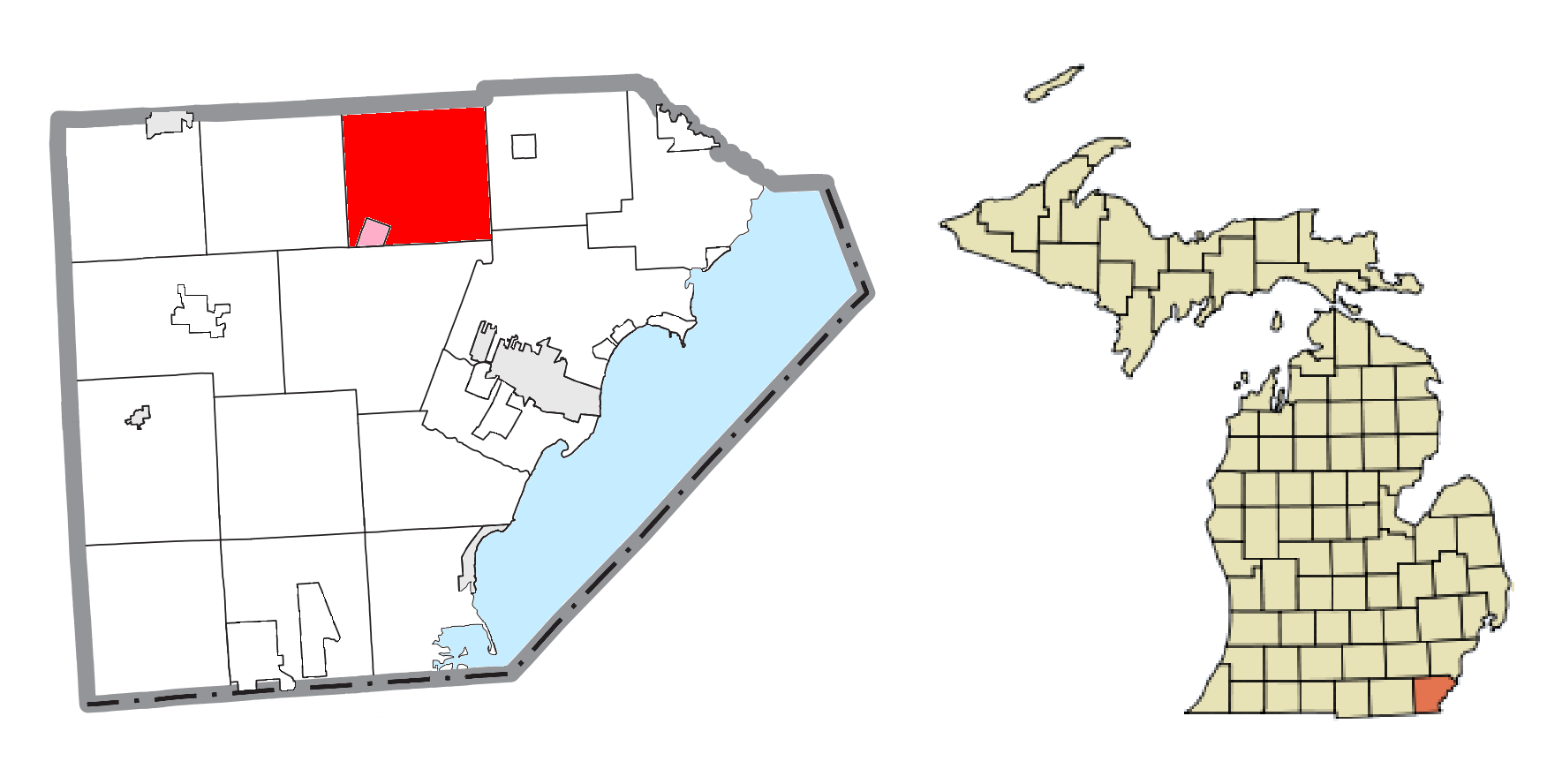 Exeter Township, MI